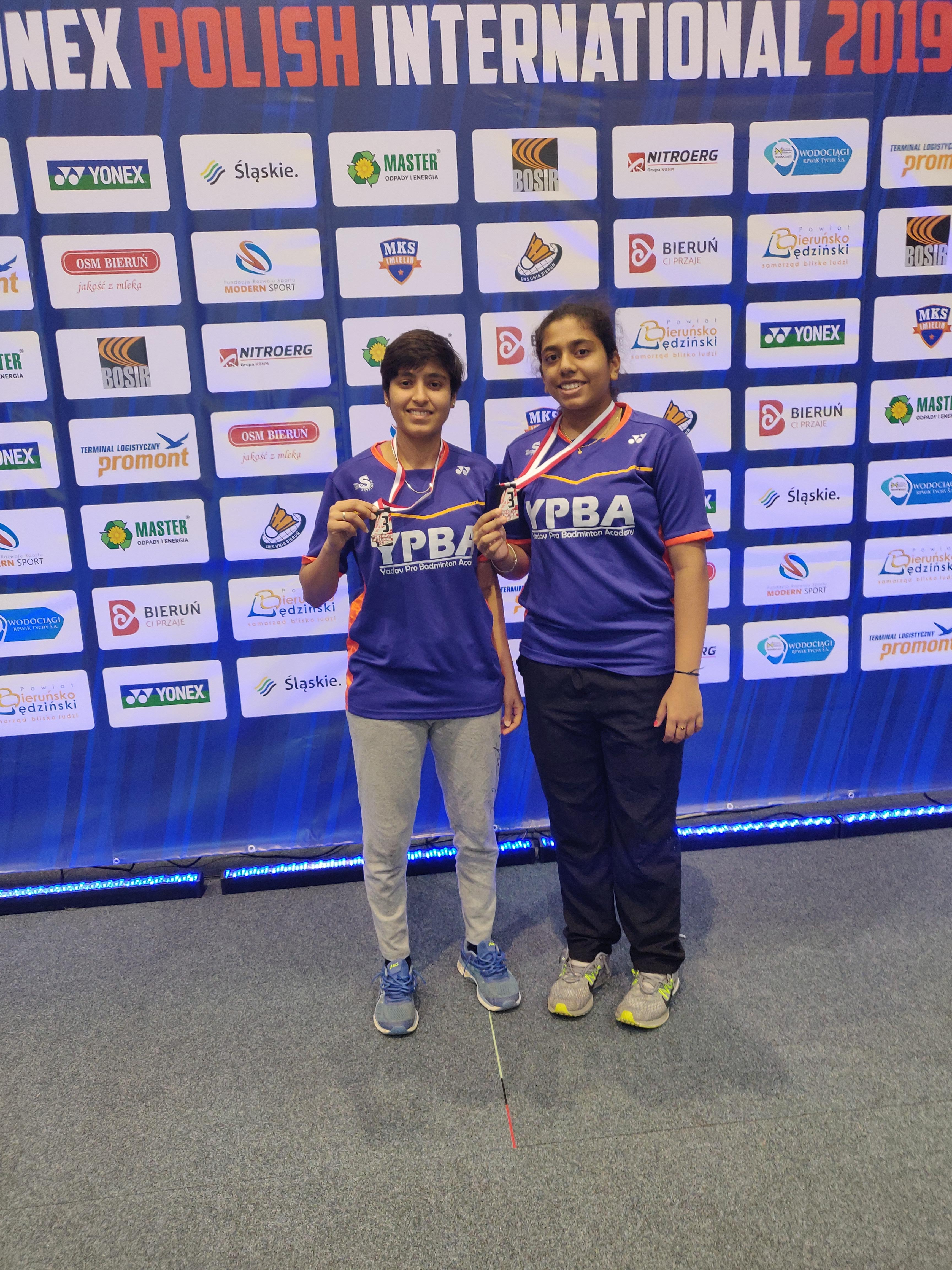 Shikha, with her partner Ashwini Bhat, after winning Bronze Medal at Polish International 2019